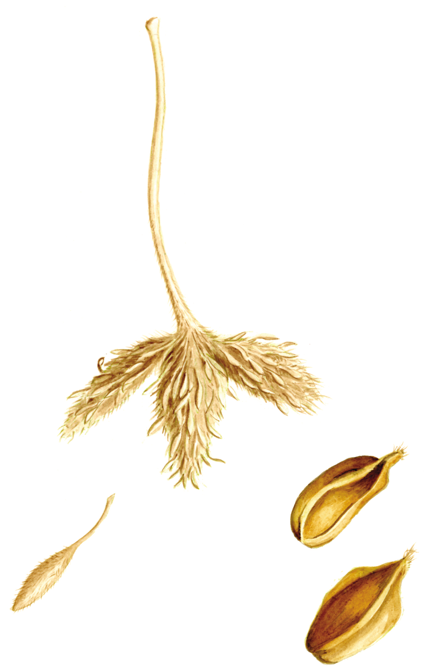 Illustration of Fagus orientalis fruit